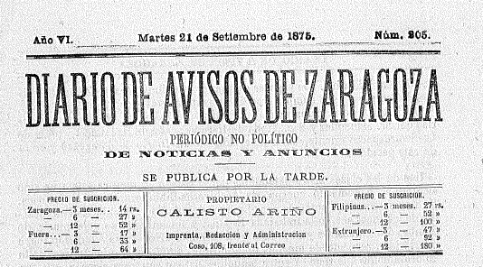 Spanish journal